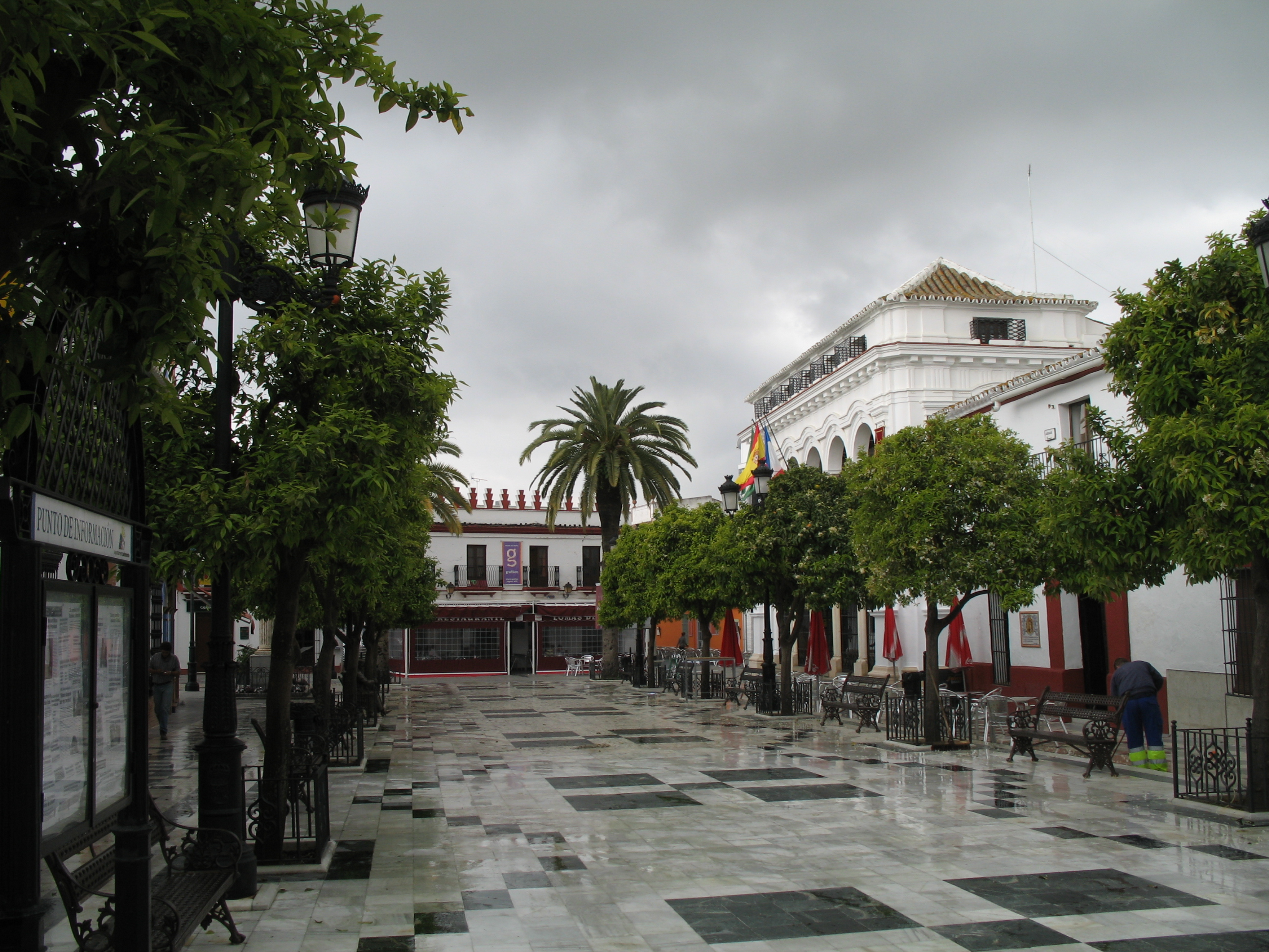 Almonte (province of Huelva, Spain): central square (Plaza Virgen del Rocío)